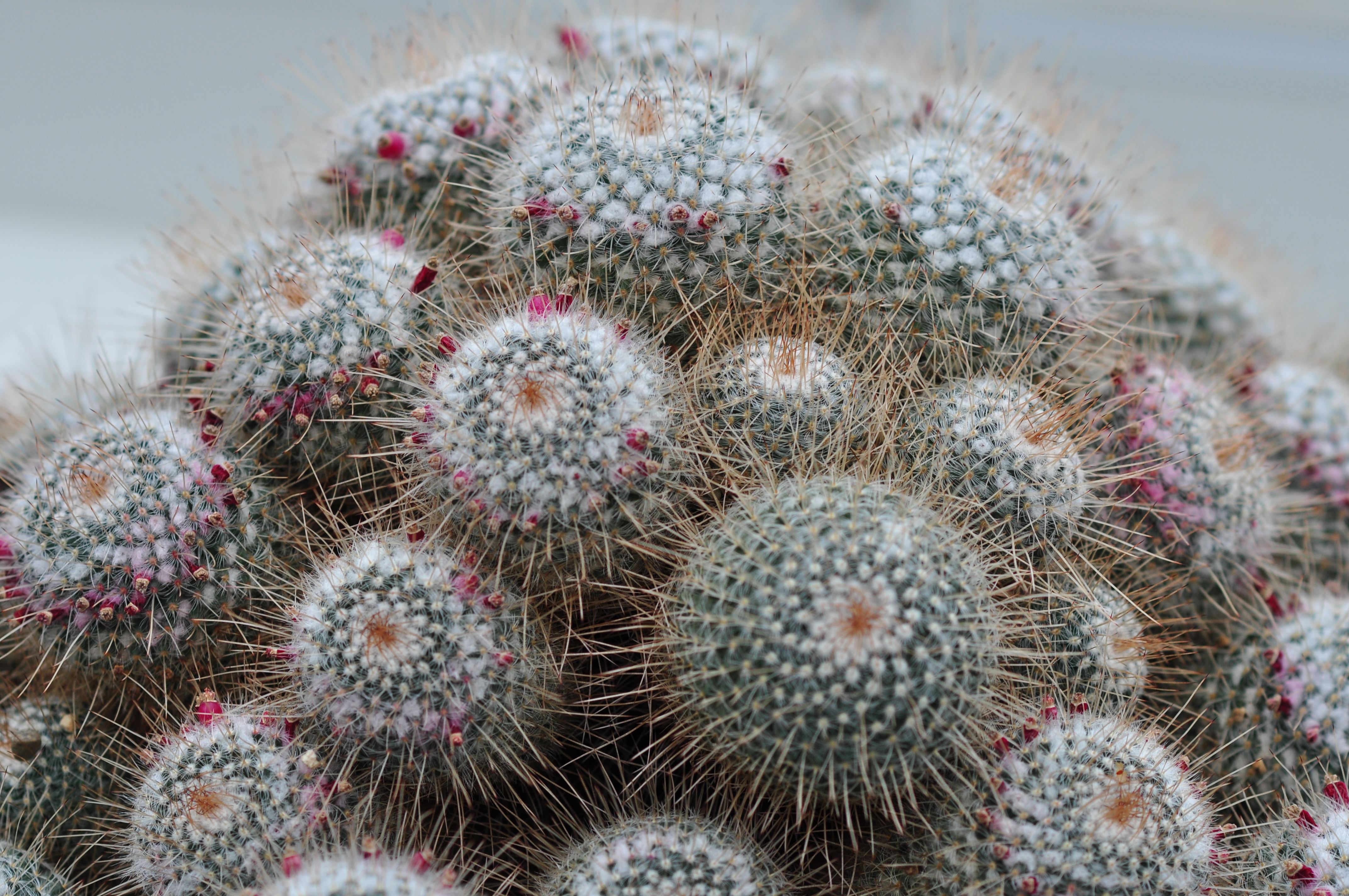 Mammillaria geminispina, Volunteer Park Conservatory, Seattle, Washington, U.S.